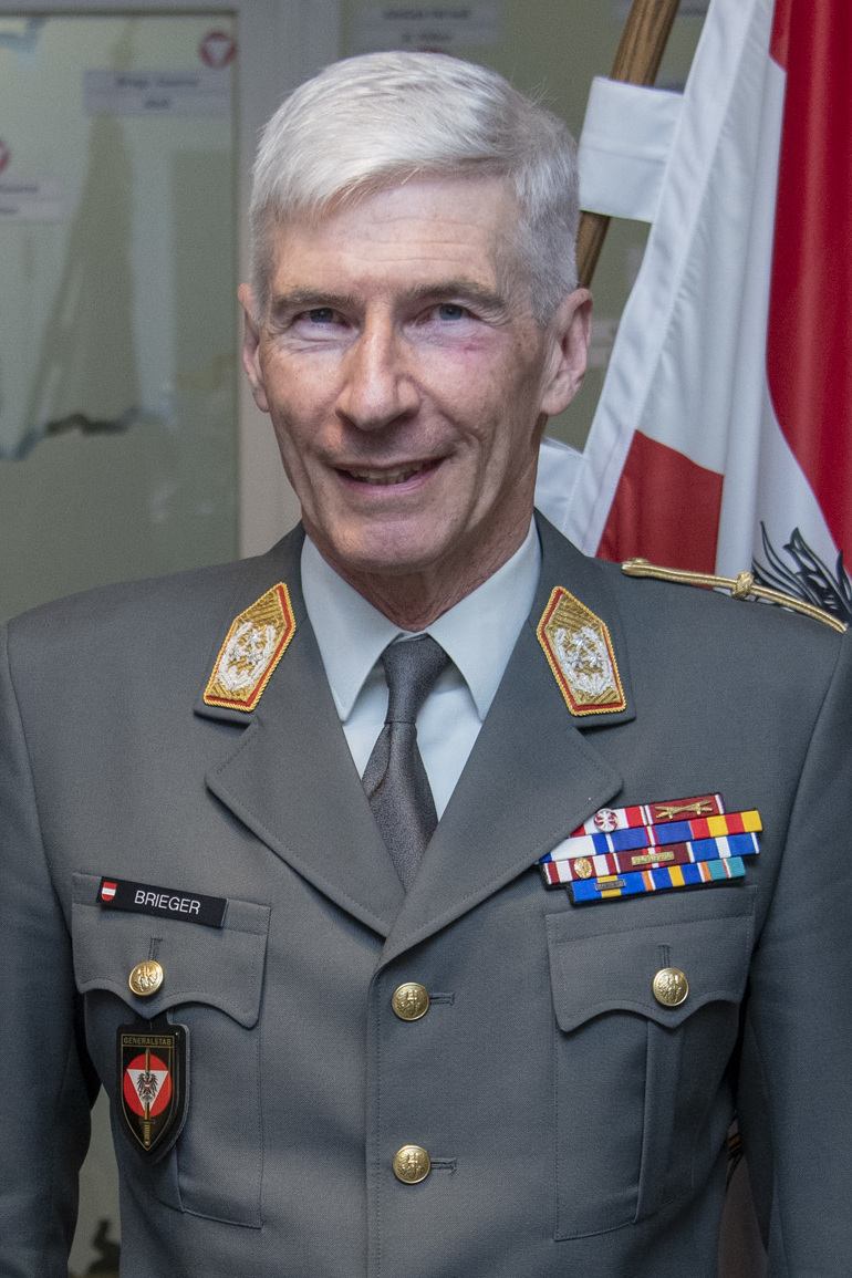 Marine Corps Gen. Joe Dunford, chairman of the Joint Chiefs of Staff, meets with Austrian Gen. Robert Brieger, Chief of the General Staff of the Austrian Armed Forces, at Rossauer Barracks in Vienna, Austria, March 4, 2019. (DoD Photo by Navy Petty Officer 1st Class Dominique A. Pineiro)